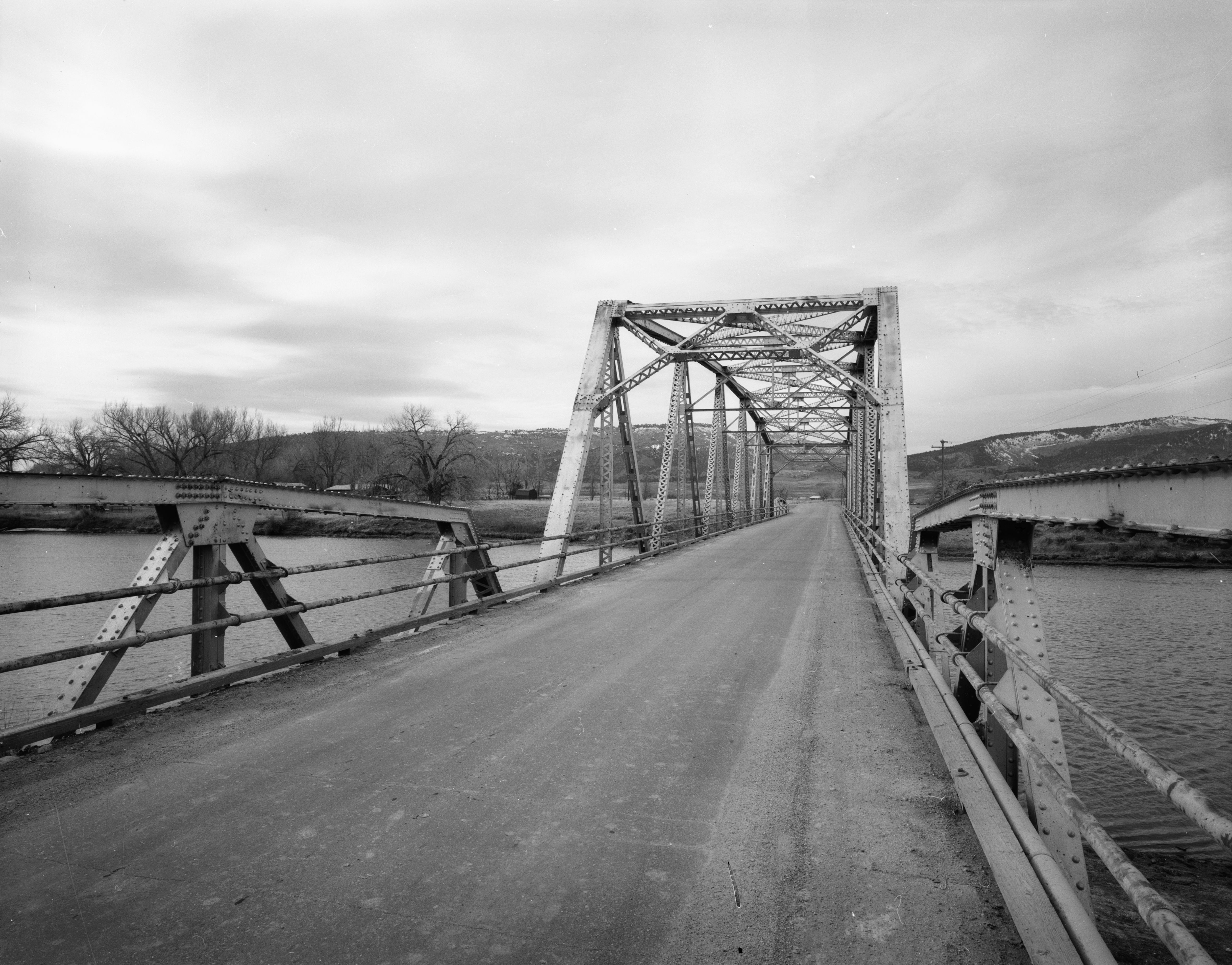 Eastern end of the DUX Bessemer Bend Bridge, which carries County Road CN1-58 over the North Platte River near Bessemer Bend in Natrona County, Wyoming, United States. Built in 1921, this Warren through truss bridge is listed on the National Register of Historic Places.